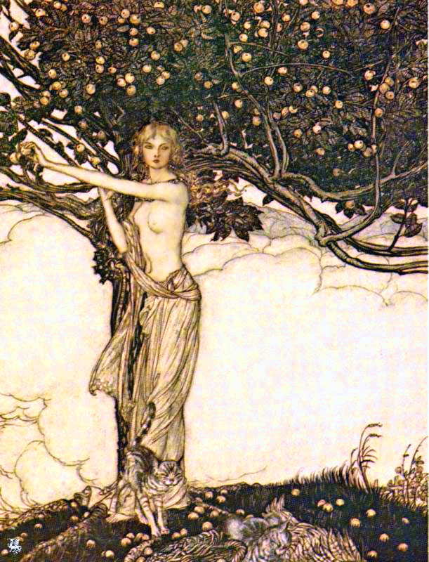 One of Arthur Rackham's illustrations from en:1910 to Wagner's Das Rheingold. See also the misnamed Image:Idun color.jpg for a color version.